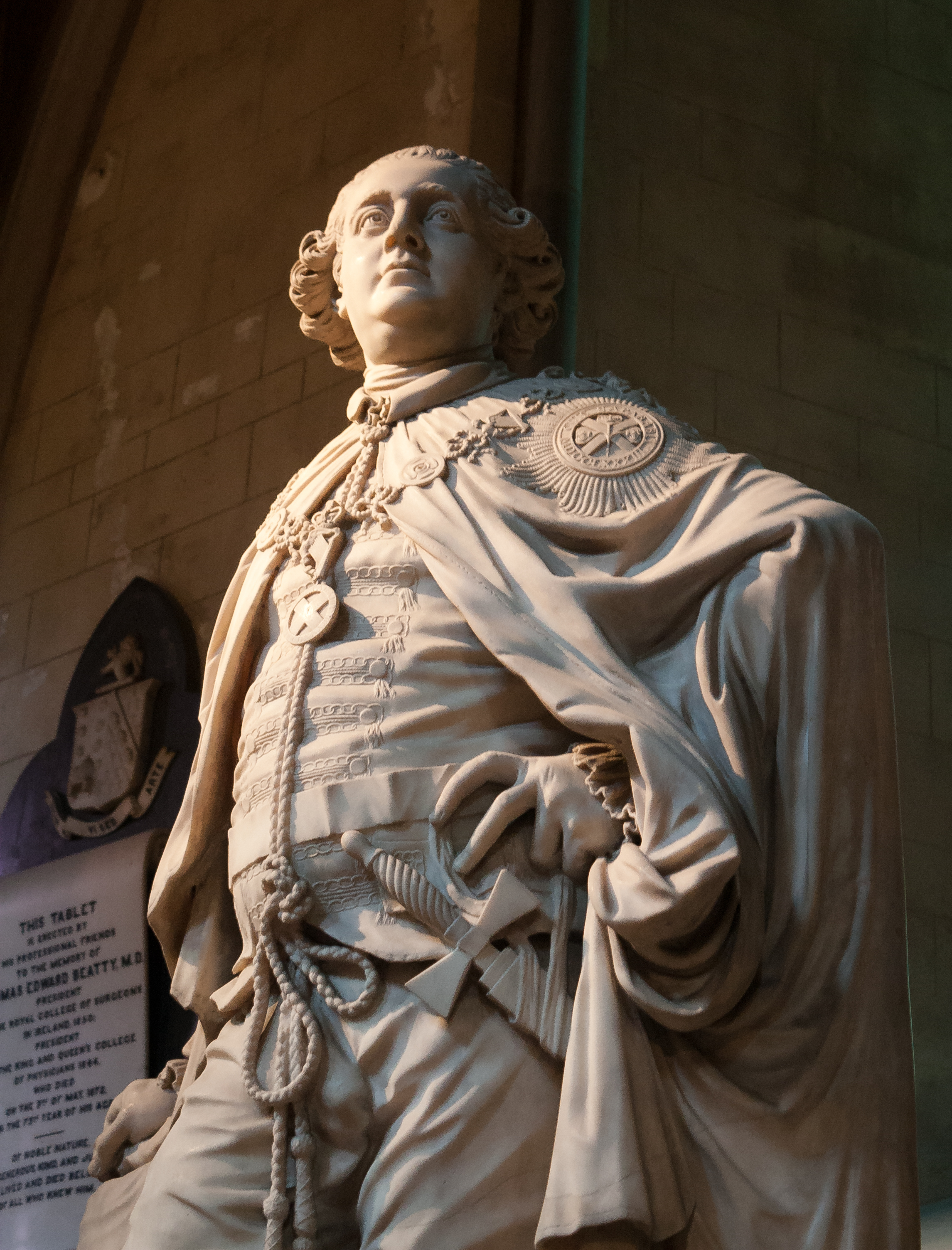 Statue of George Grenville Nugent Temple Marquess of Buckingham in the robes of the Knights of St Patrick, sculpted by Edward Smyth in 1783. Originally intended for a never realized town square in Co. Waterford, it is now placed in the north aisle of the Cathedral.